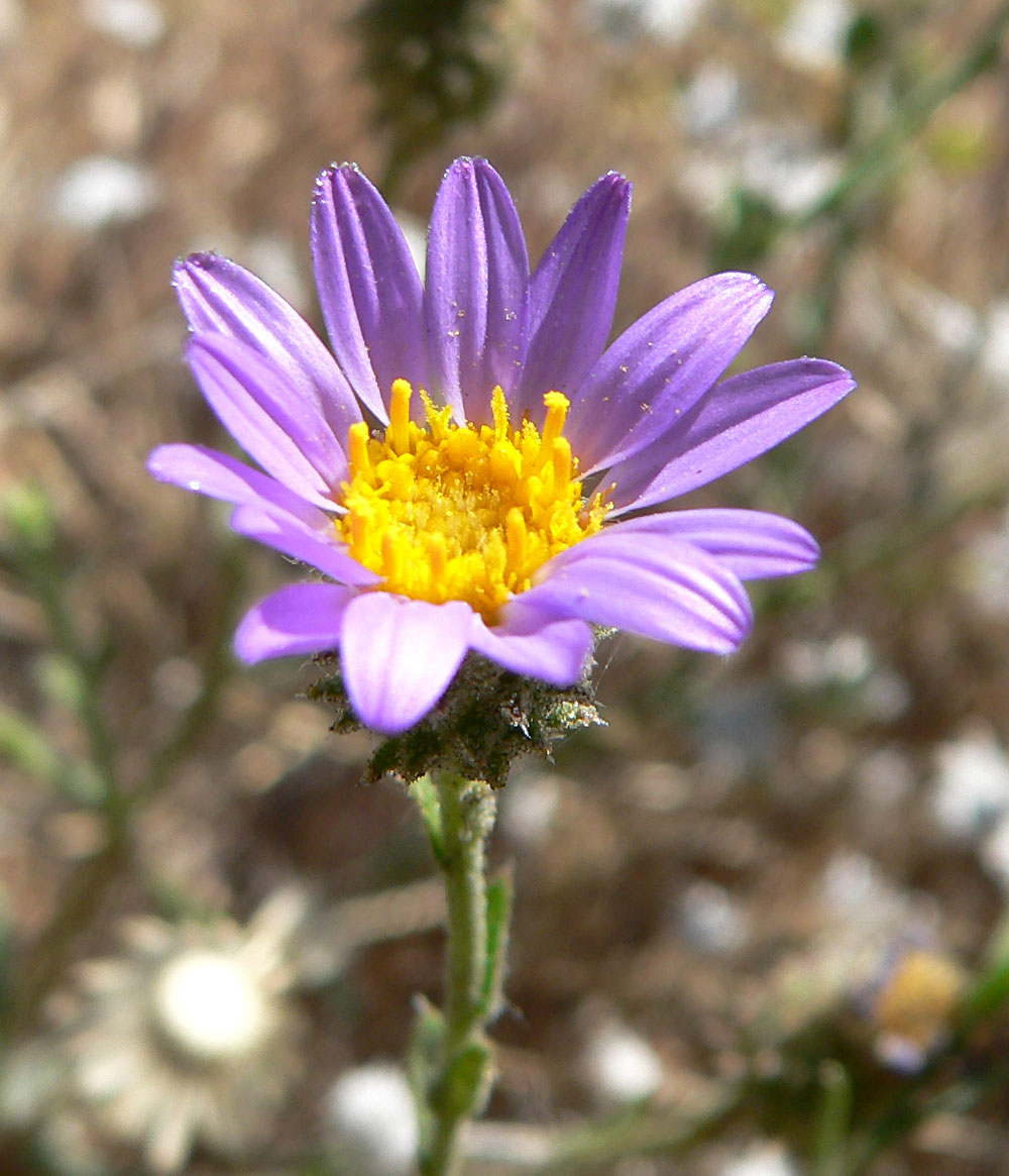 Dieteria canescens var. canescens in Kyle Canyon, Spring Mountains, west of Las Vegas, Nevada